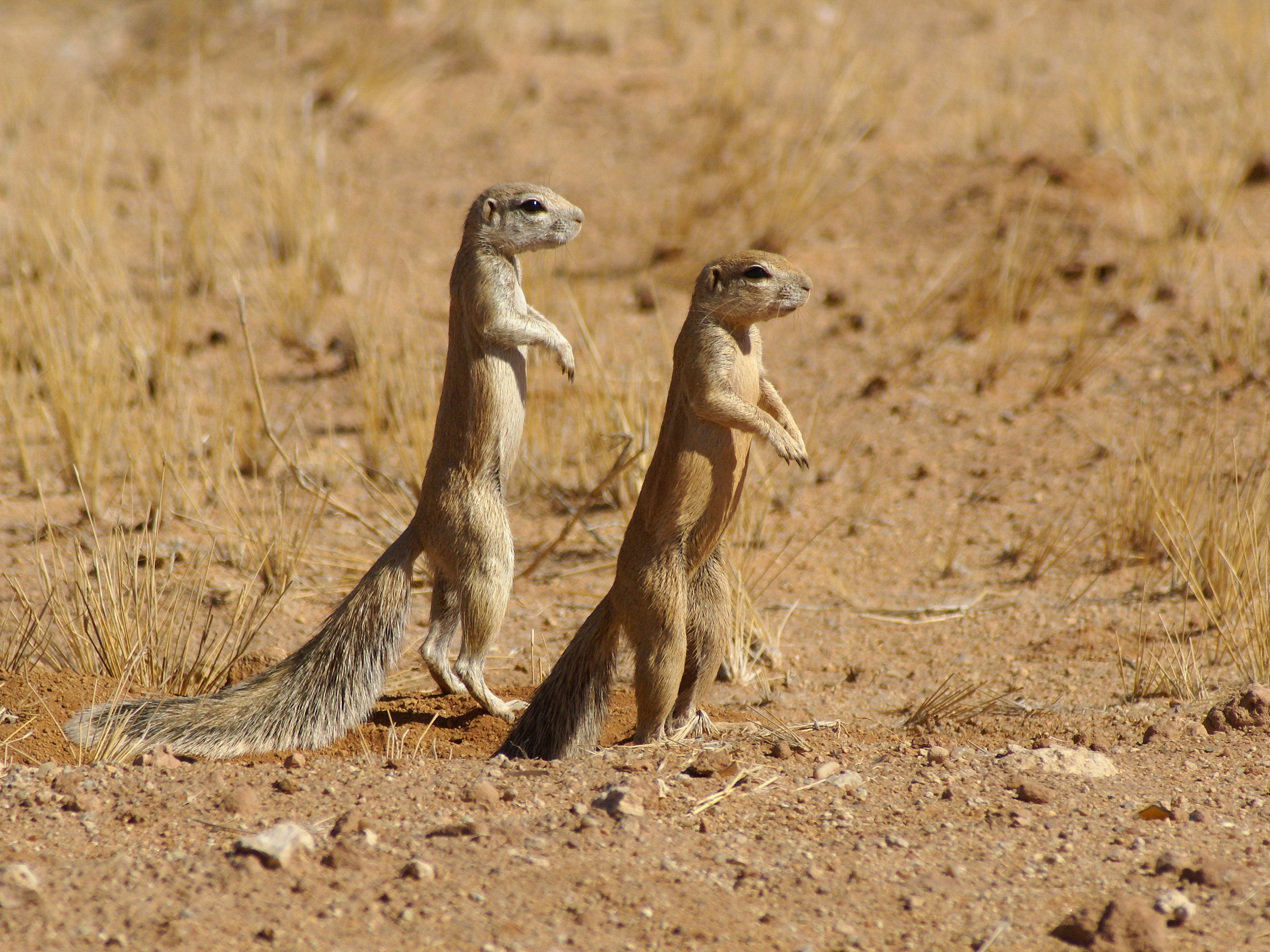 Cape Ground Squirrels close to Solitaire in the Namib desert, Namibia